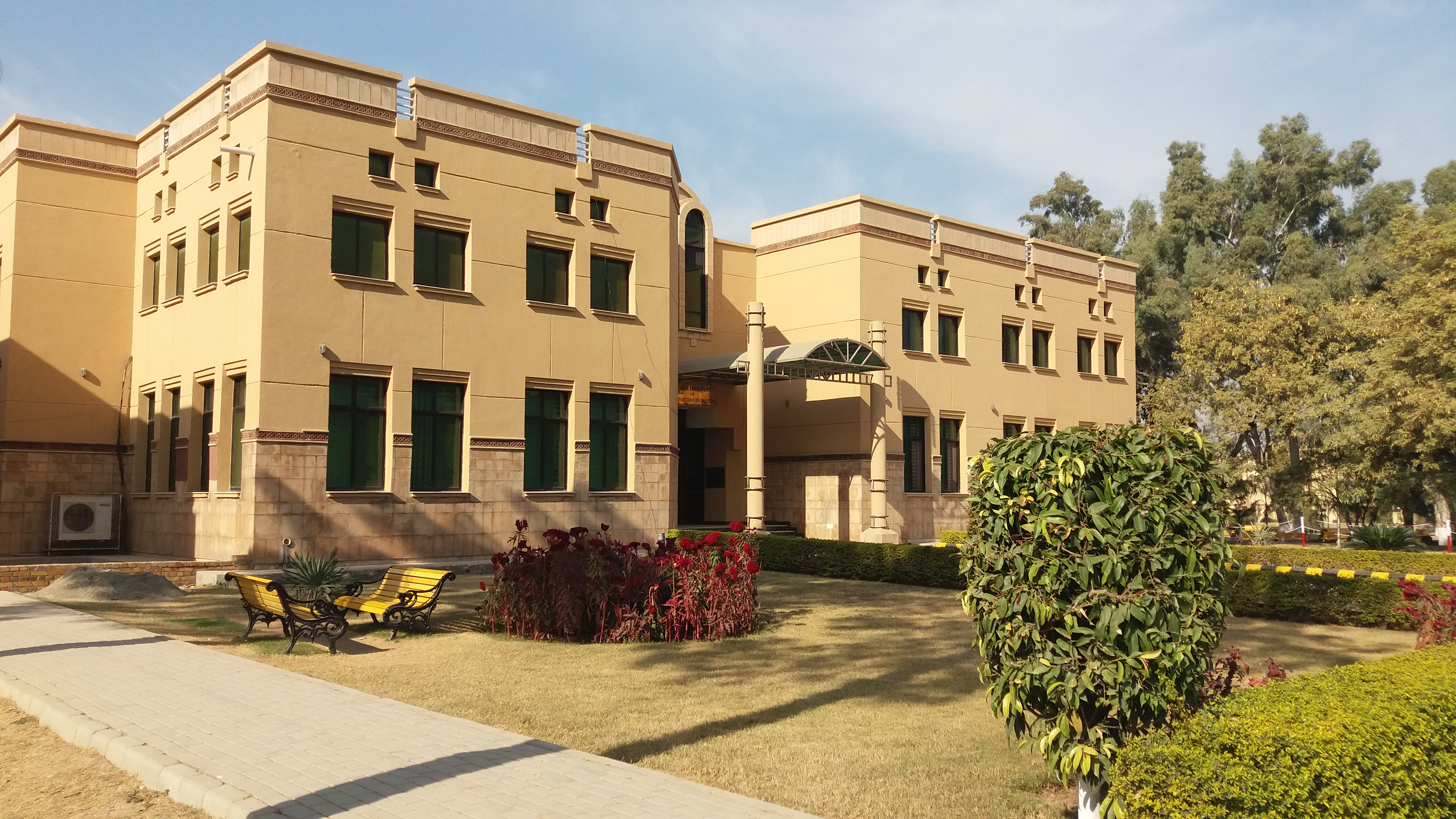 Taxila Institute of Transportation Engineering of Civil Engineering Department, UET Taxila. The institute was established in 2006 for undergraduate, postgraduate research in Transportation Engineering.